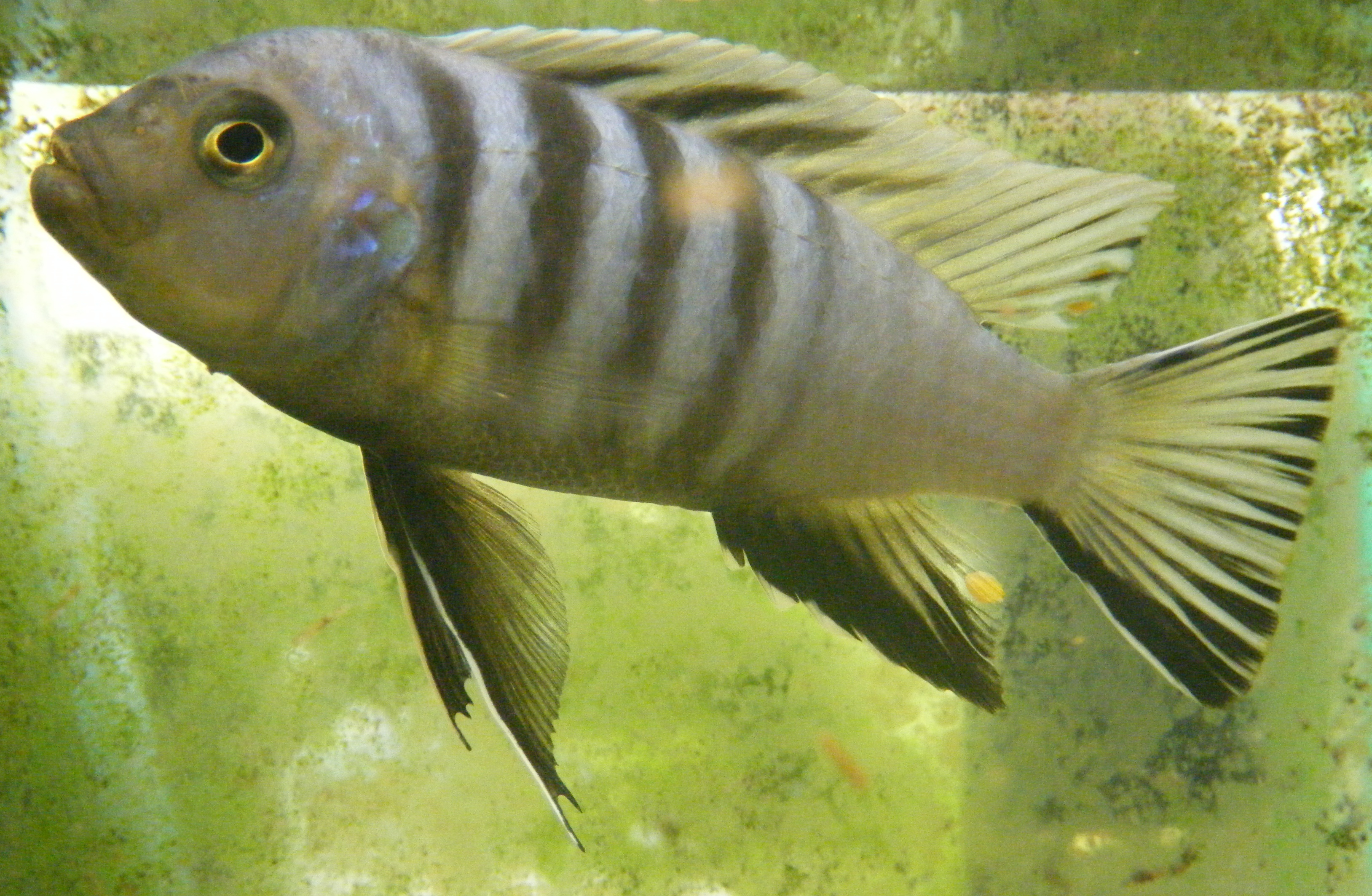 Cynotilapia axelrodi, wild caught male from Nkhata Bay